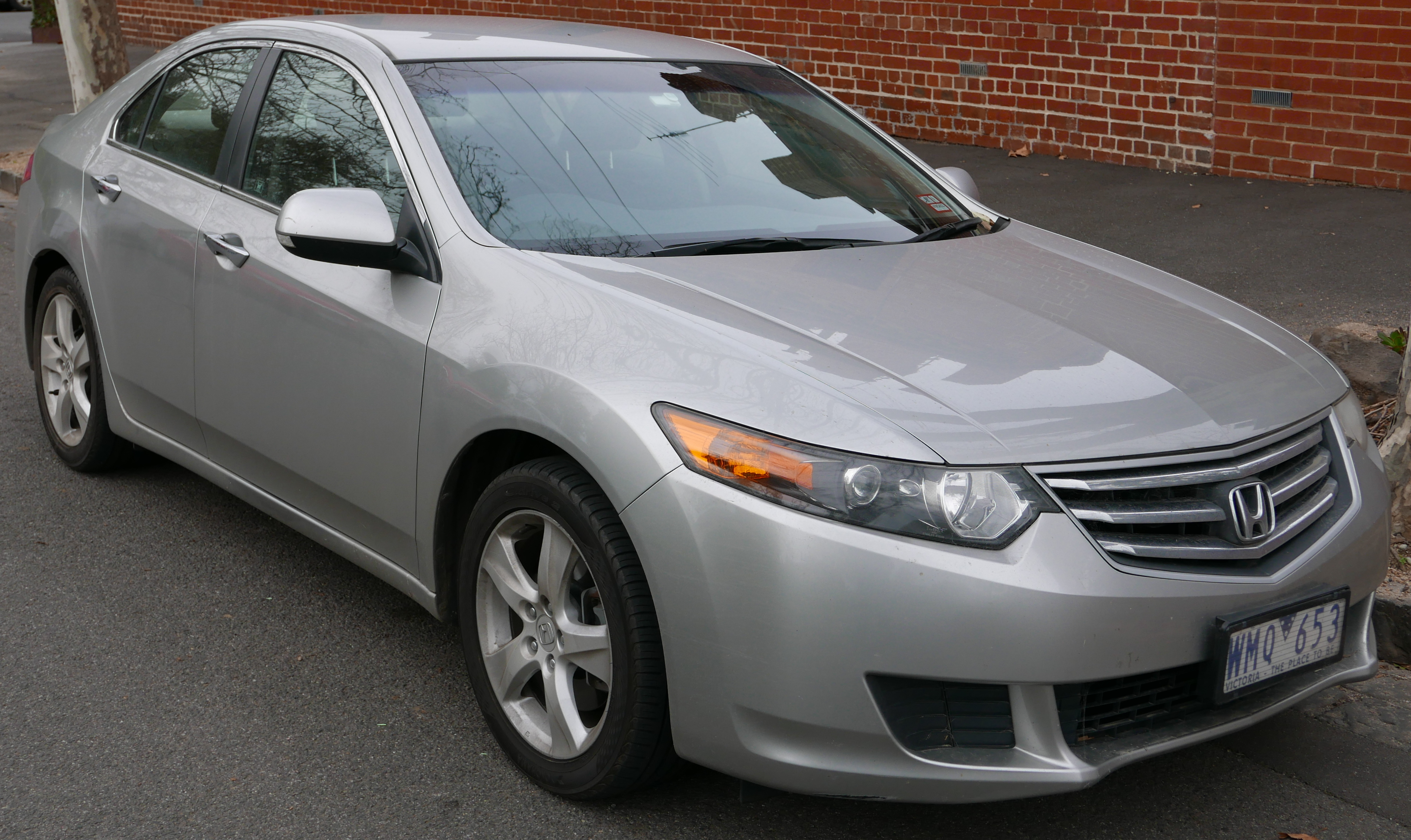 2008 Honda Accord Euro sedan. Photographed in Fitzroy North, Victoria, Australia. Vehicle registration enquiry resultsJurisdictionVictoriaRegistrationWMQ653Chassis codeJHMCU25409C205599Engine codeK24A32350982Compliance date2008-06Year of manufacture2008